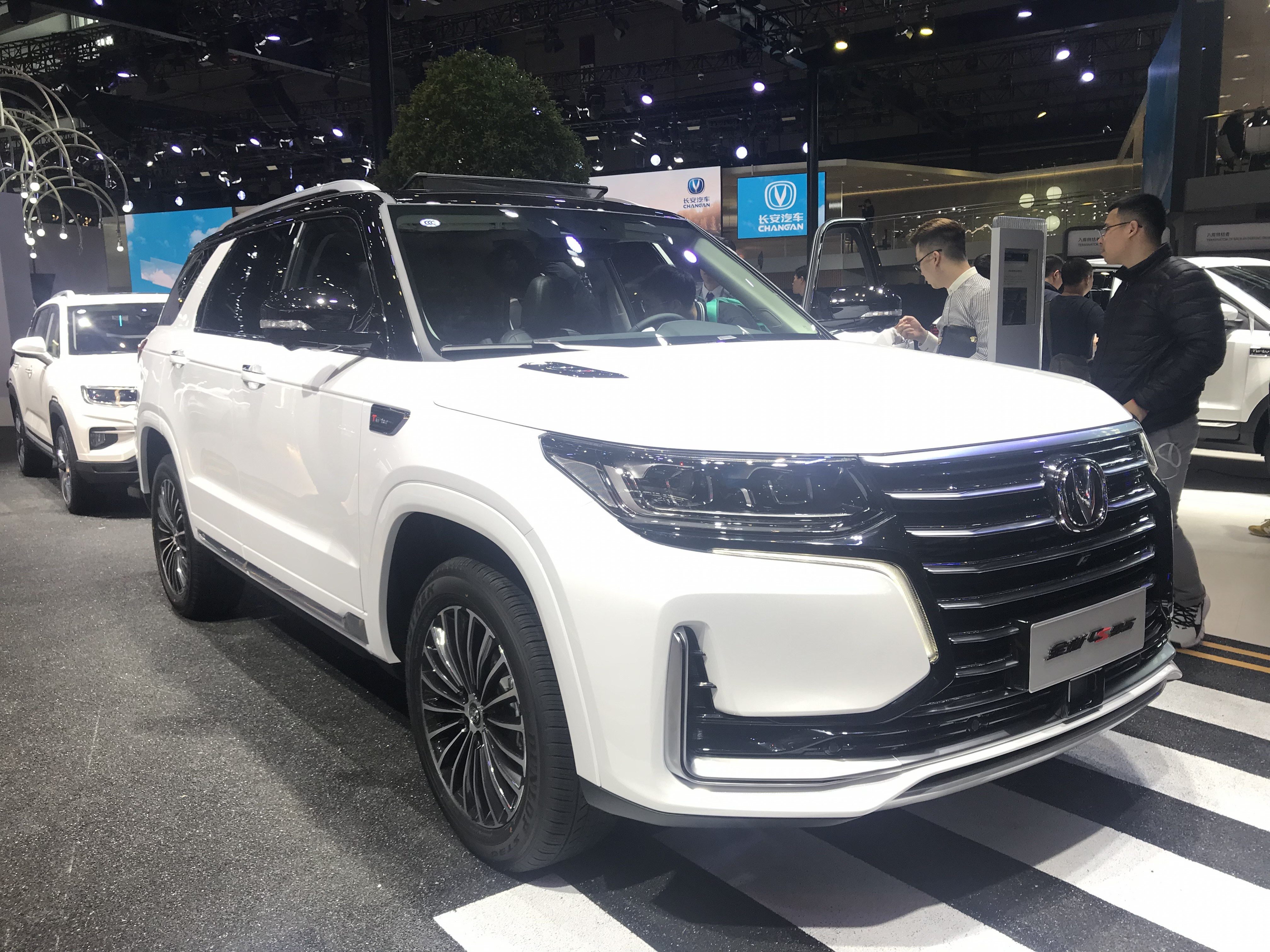 Changan CS95 facelift front